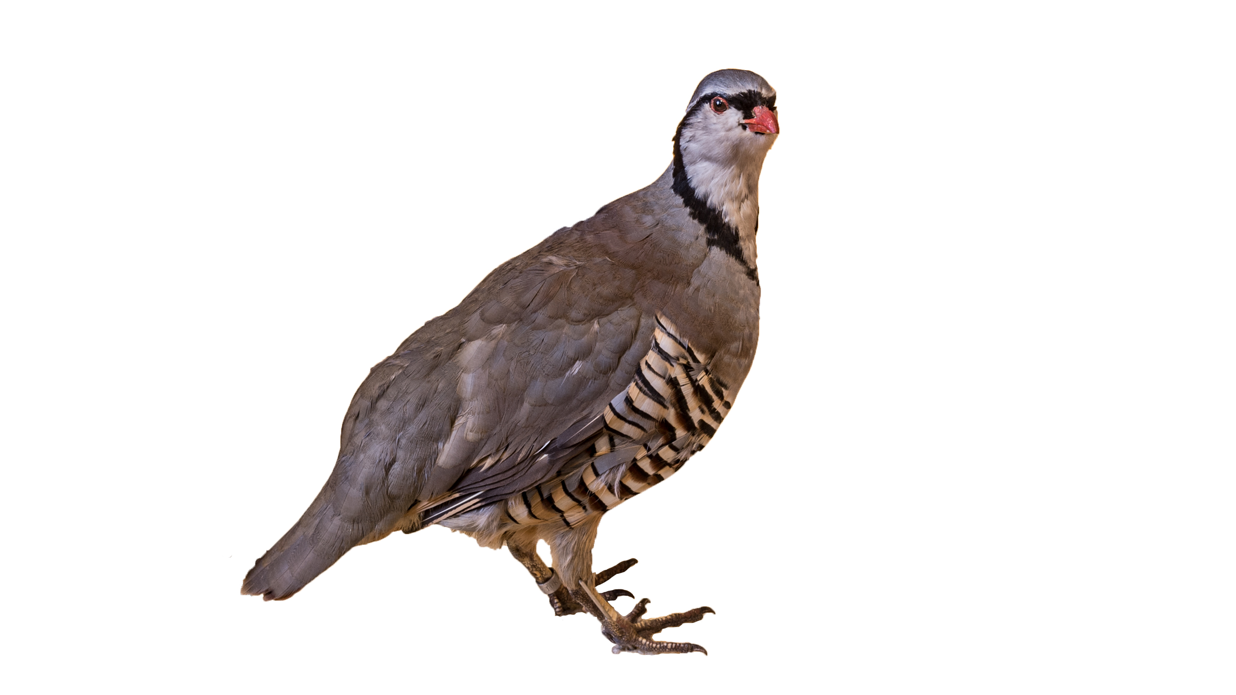 Taxidermied Alectoris graeca (rock partridge).